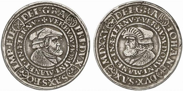 GERMANY, Sachsen-Ernestinische Linie. Friedrich III, the Wise, and Johann. 1486-1525. Thick Guldengroschen (Silver, 28.98 g 12), Buchholz, 1525. FRI.DVX.SAX.S.RO IMP.ELE DEI.GRA/VERBVM.DOMINI.MANET.IN ÆTERNV Draped bust of Friedrich to right, wearing soft hat; around, double circle of inscriptions with the outer divided by four shields Rev. .IOHAN.DVX.SAX .M.D.XXV. DEI.GRA/VERBVM.DOMINI.MANET.IN ÆTERNV.T. Draped bust of Johann to left, wearing soft hat with elaborate visor; around, double circle of inscriptions with the outer divided by four shields. Dav. 9712. Keilitz & Kohl 84. Schnee 49. Schulten 2971. Very rare. Lightly toned and particularly attractive. About extremely fine.